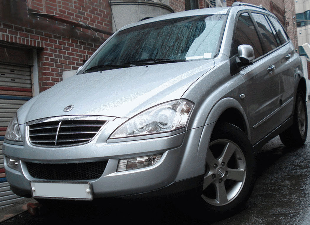 SsangYong New Kyron